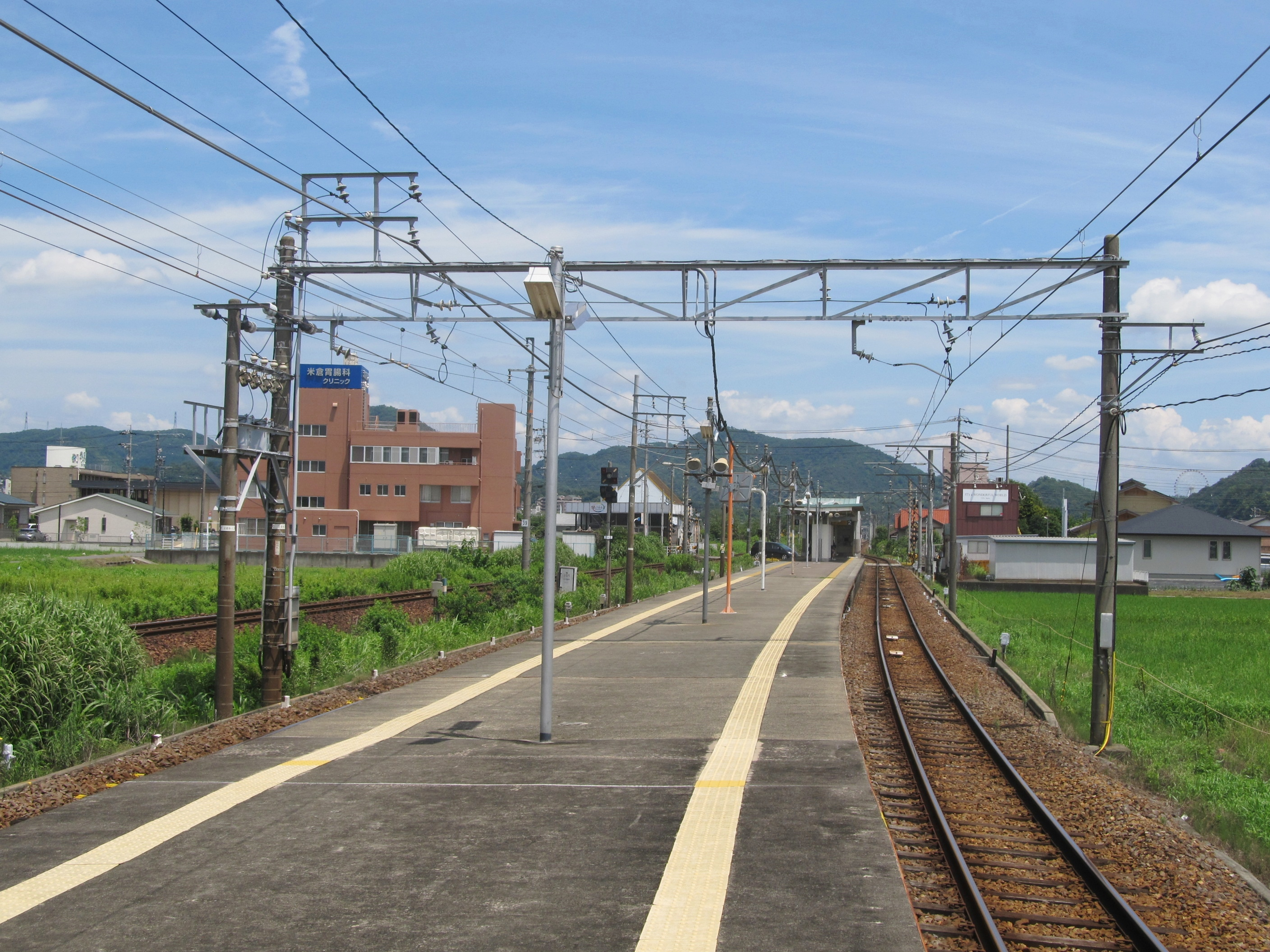 Nagoya Railroad Kakamigahara Line Unumajuku Station Platform